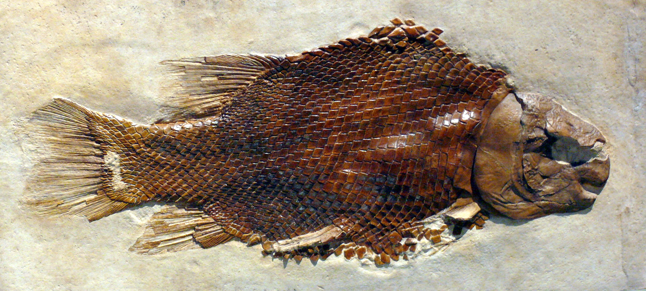 Scheenstia maximus (Synonym Lepidotes maximus) from Solhofen